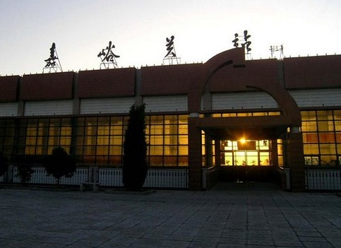 Jiayuguan Railway Station